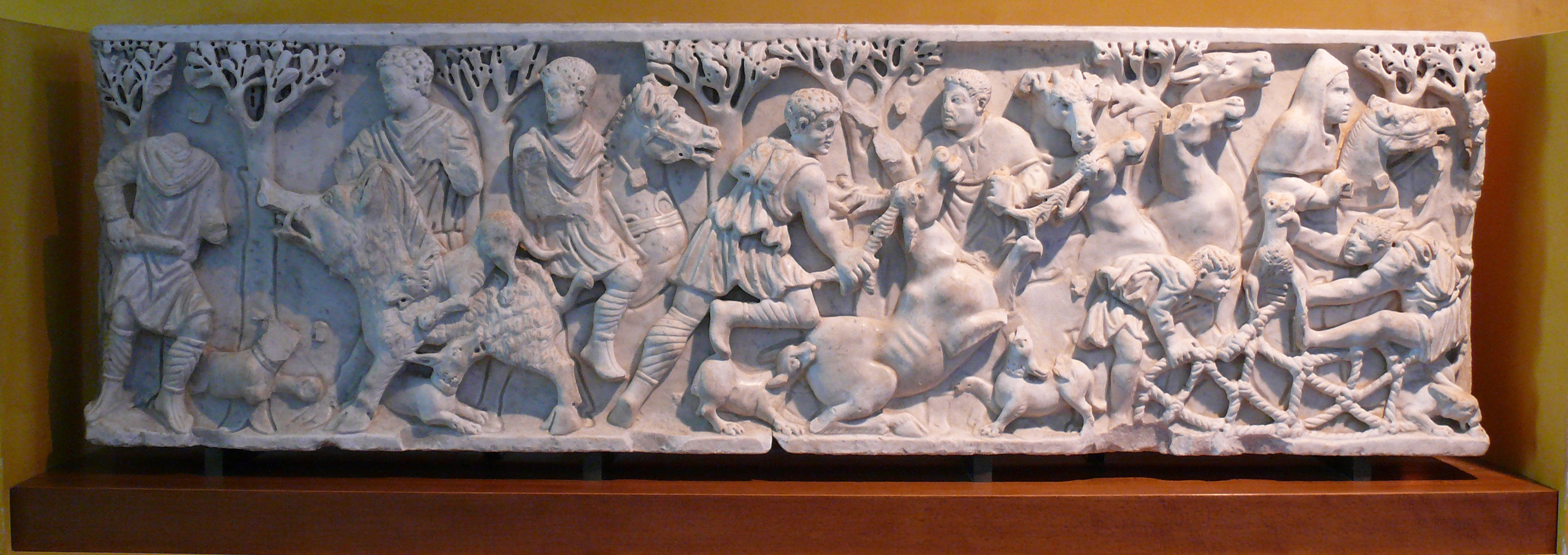 Sarcophagus with hunting scene. Provenance: Alyscamps It was reused for the choir of the Eglise St-Honorat. 3rd century. Musée de l'Arles et de la Provence antiques FAN92.00.458